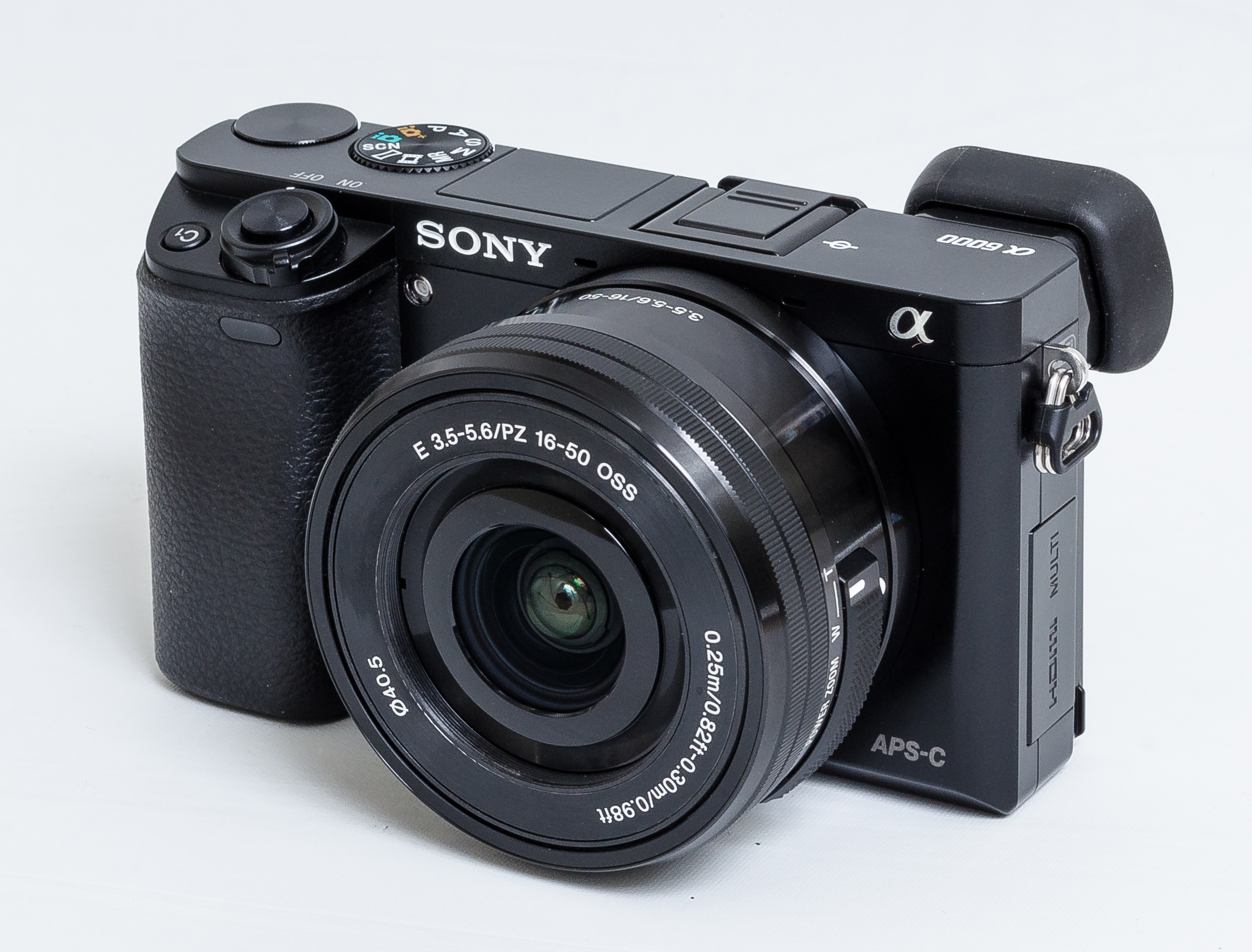 I got this to replace the D7000 as while it's a great camera the bulk of it annoyed me. I like it so far, have my qualms with it but that's true for any camera. Hopefully can take some shots (excluding ones of cameras) worth putting on flickr with it at some point.